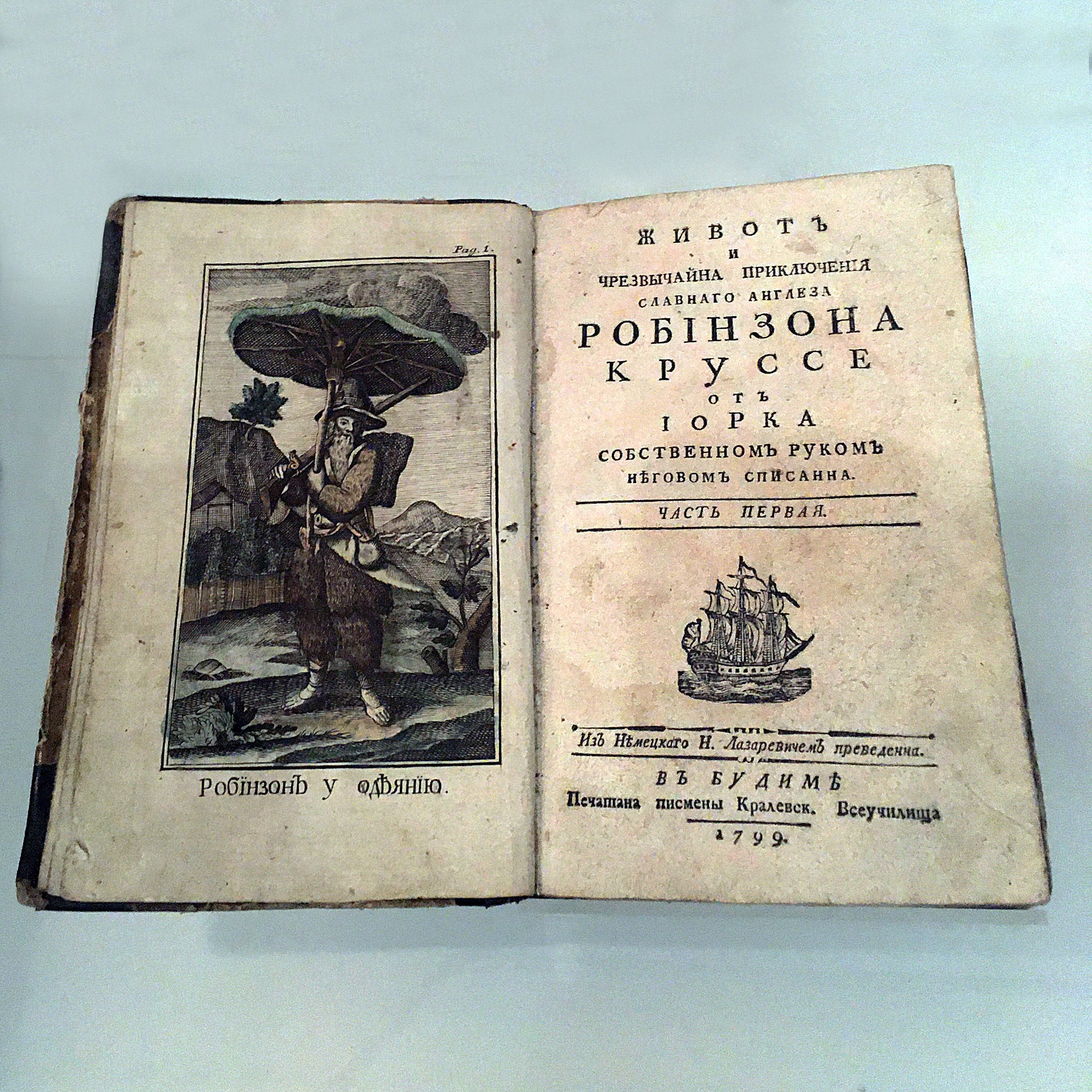 Robinson Crusoe, Serbian edition 1799 (Manak's House, Belgrade)